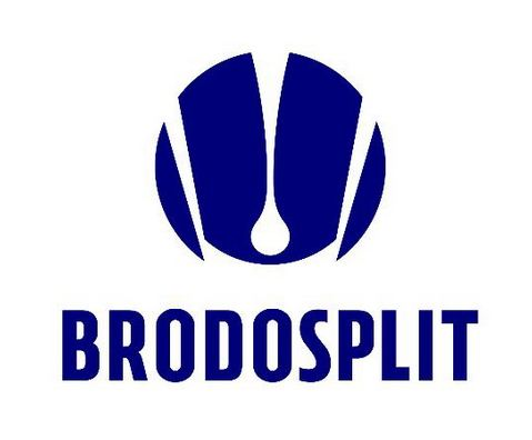 Brodosplit logo.